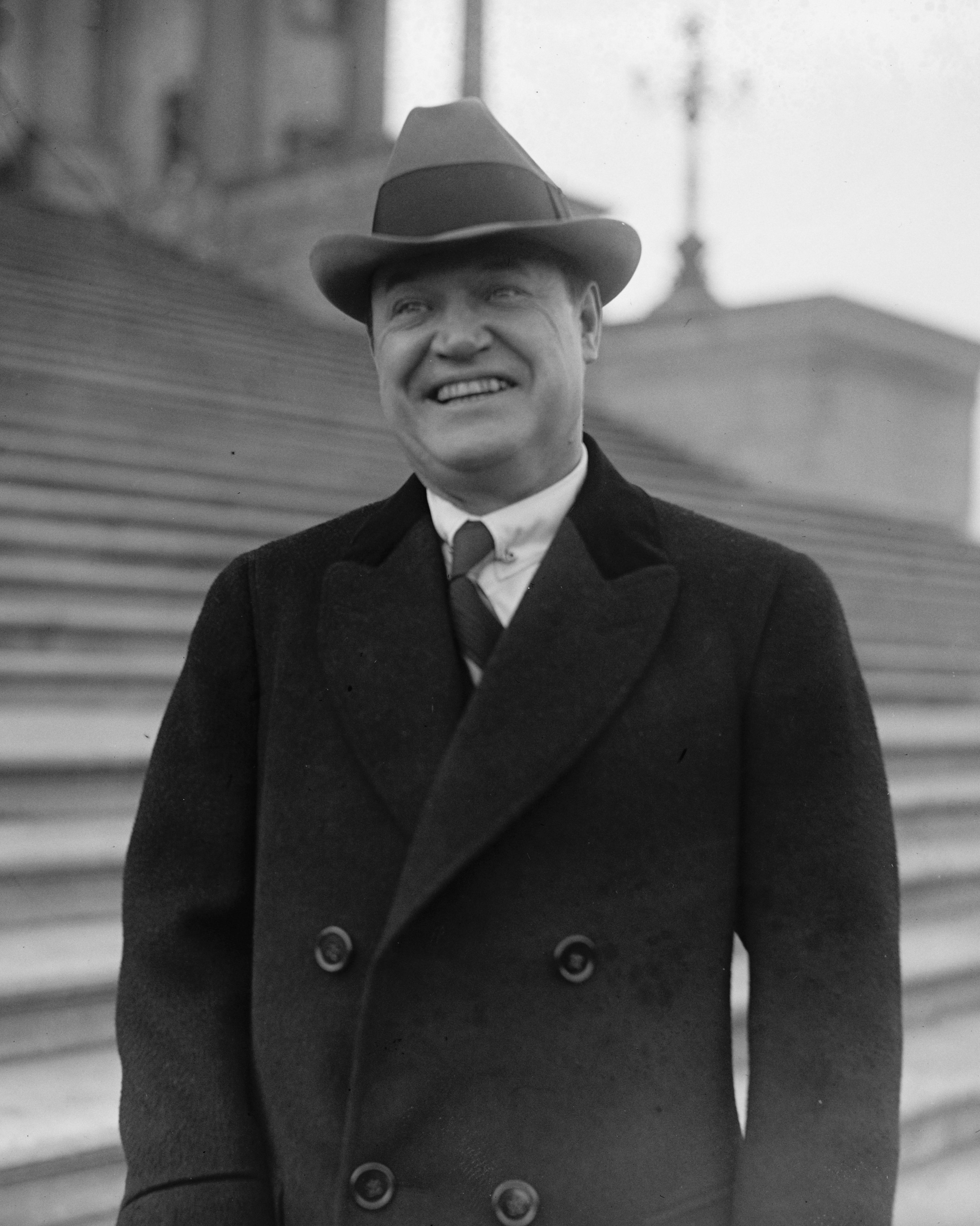 Title: Harry F. Sinclair, 1/22/23 Abstract/medium: 1 negative : glass ; 5 x 7 in. or smaller